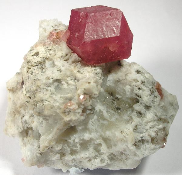 Grossular Locality: Sierra Mojada, Municipio de Sierra Mojada, Coahuila, Mexico (Locality at ) Size: thumbnail, 2.2 x 2.2 x 1.3 cm Grossular Garnet From the famous Mexican discovery, these famous red garnets have graced many important collections. This superb dodecahedron, .7 cm across and having excellent luster, sits perfectly atop the quartz matrix. Ex. Wendell E. Wilson Collection.